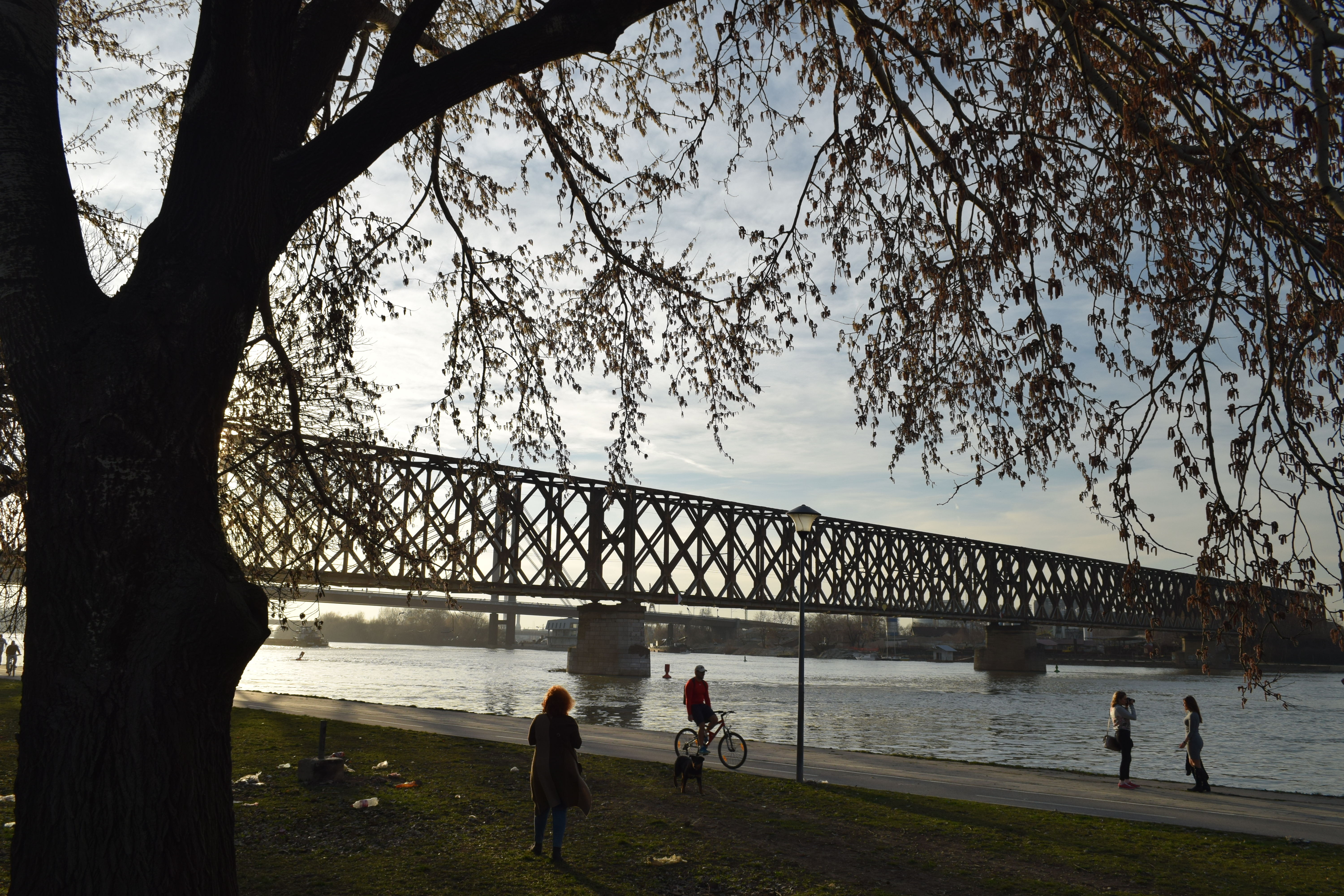 Old Railway Bridge over river Sava in Belgrade